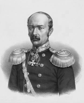 Kaufman, Mikhail Petrovich